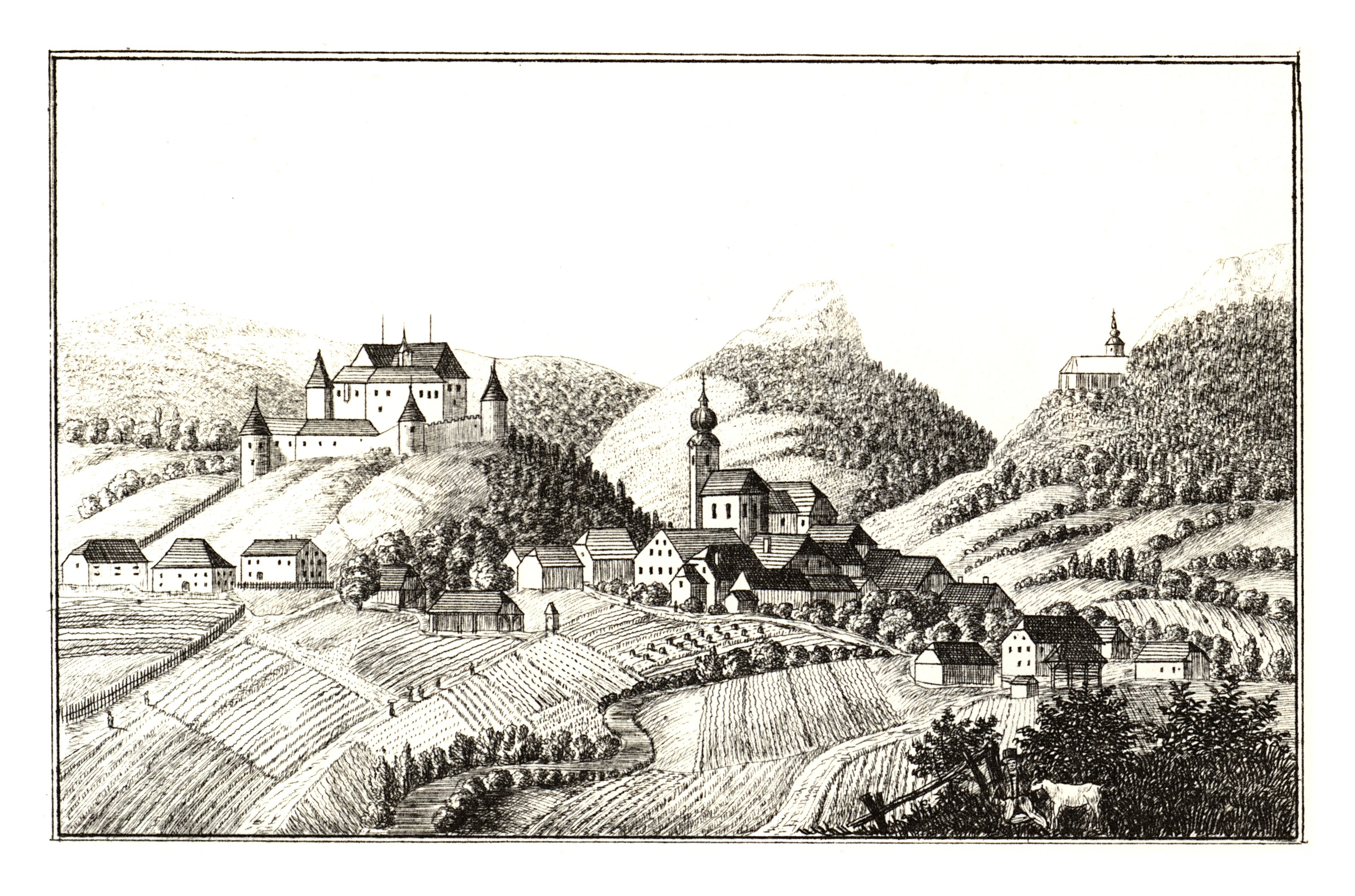 J. F. Kaiser - lithographirte Ansichten der Steyermärkischen Städte, Märkte und Schlösser, Graz 1824-1833 Joseph Franz Kaiser (1786–1859) Alternative names J. F. KaiserDescriptionAustrian printer and editorDate of birth/death 11 March 1786 19 September 1859Location of birth/death Graz (Styria) GrazAuthority control : Q1499963 VIAF: 30629353 ISNI: 0000 0000 3083 0153 LCCN: n87141671 GND: 129880159 NLP: A24960305 WorldCat creator QS:P170,Q1499963 . Scanprojekt Community Projektbudget 2012 This scan or this PDF-file was created within the GLAM-project Bookscanning, supported by Wikimedia Germany and Wikimedia Austria as a part of the community-project to capture books, documents and pictures which are not eligible to copyright or for which the copyright has expired. This document describes or depicts an object which is located in Austria today. Send requests for uncompressed scans to Hubertl. This work is in the public domain in its country of origin and other countries and areas where the copyright term is the author's life plus 100 years or fewer. You must also include a United States public domain tag to indicate why this work is in the public domain in the United States. This file has been identified as being free of known restrictions under copyright law, including all related and neighboring rights.